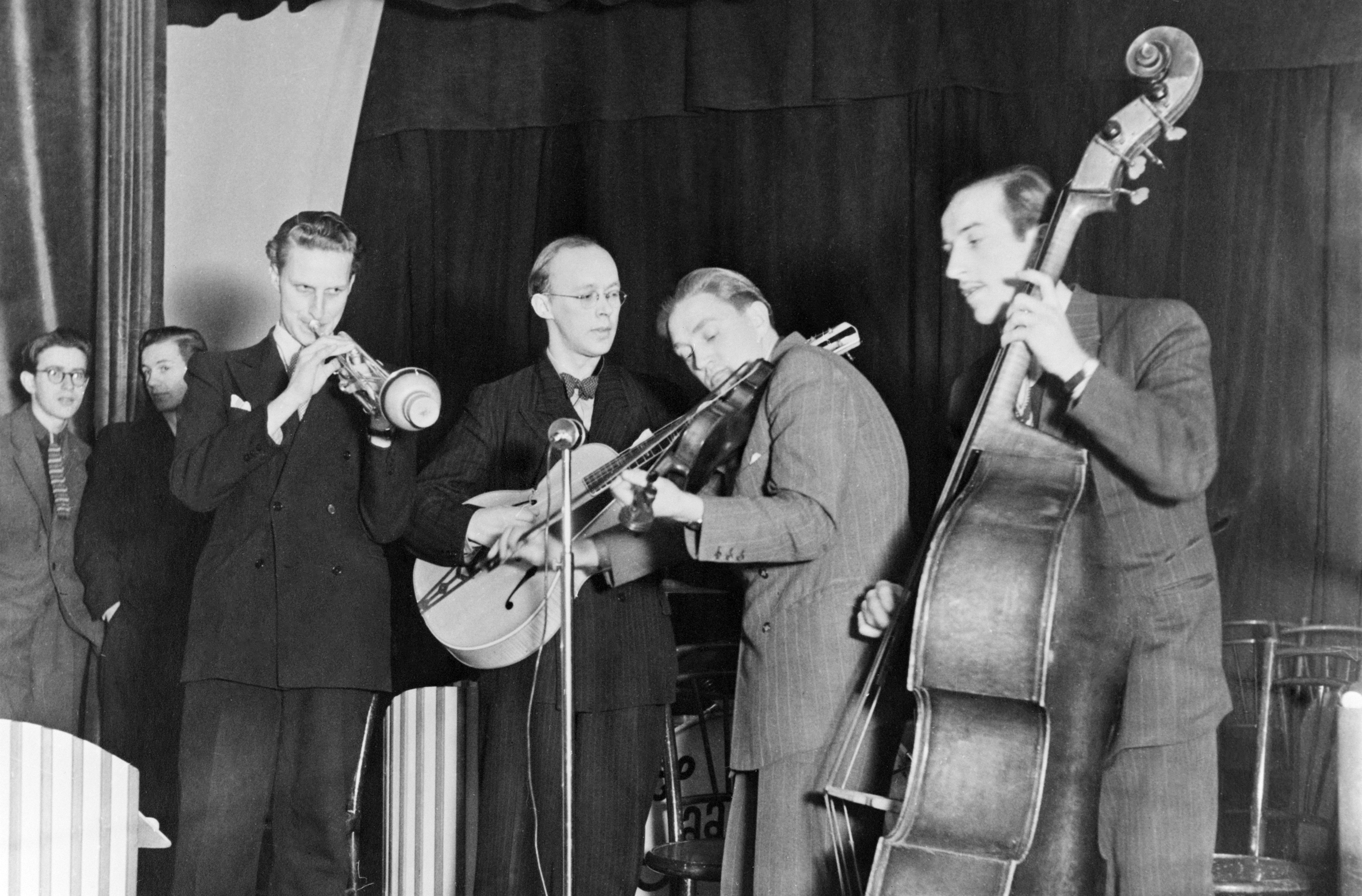 Photograph of Ingmar Englund Orchestra at Balder Hall in Helsinki: Olle Andersson (tp.), Ingmar Englund (gu.), Onni Gideon (viol.), Erik Lindström (b.).